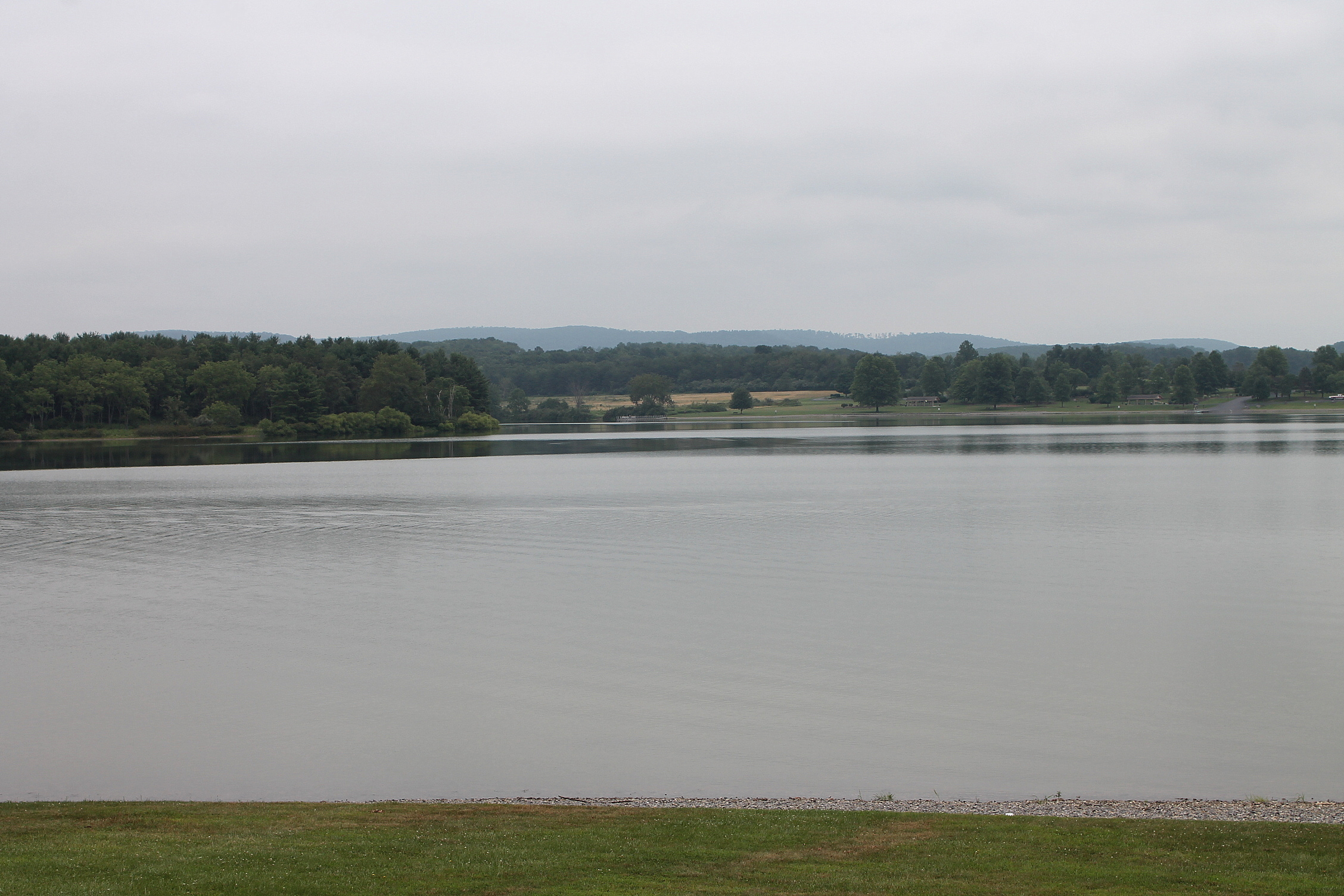 Lake Chillisquaque looking east